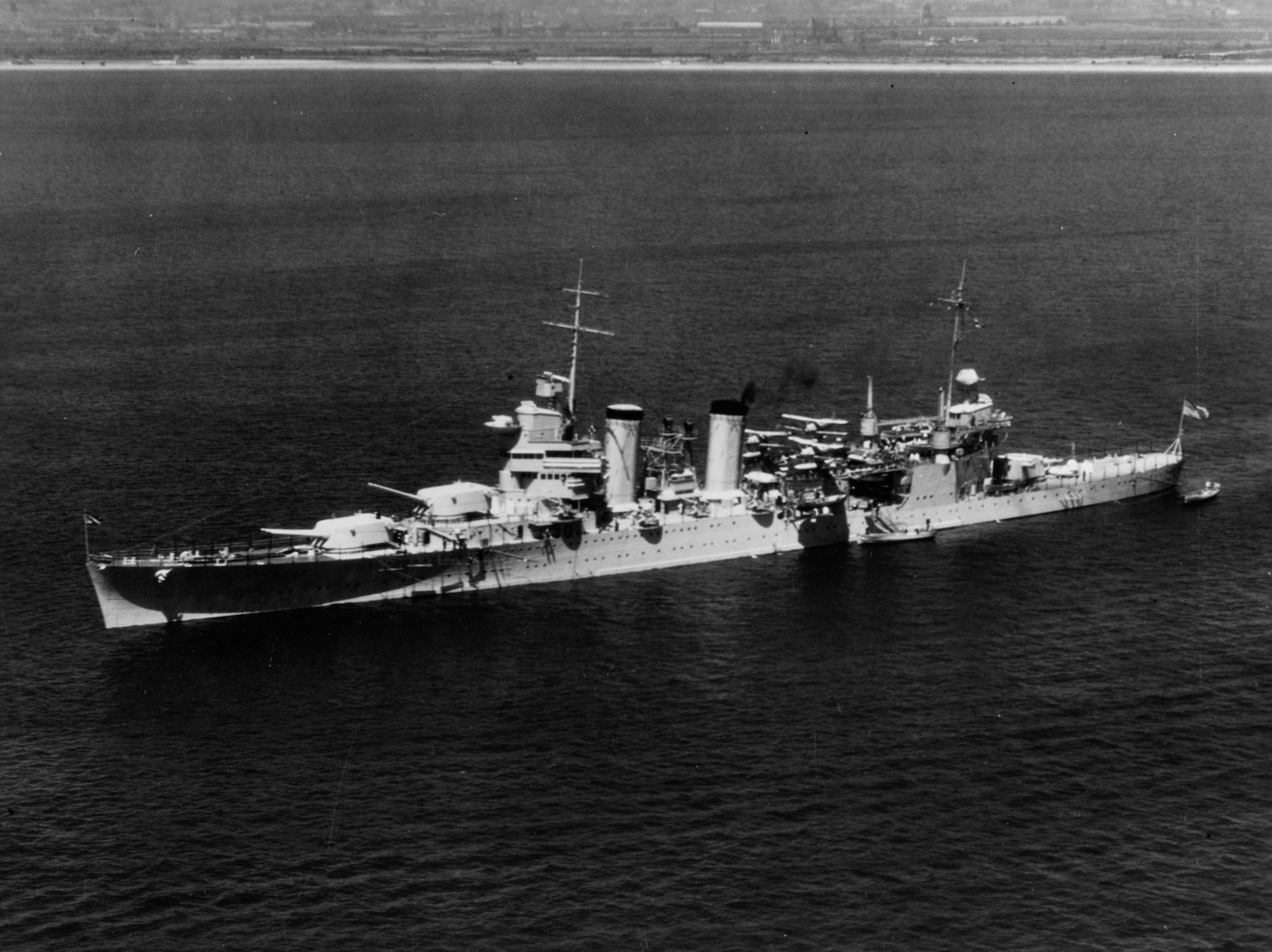 The U.S. Navy heavy cruiser USS San Francisco (CA-38) at anchor off San Pedro, California (USA), on 22 April 1935.